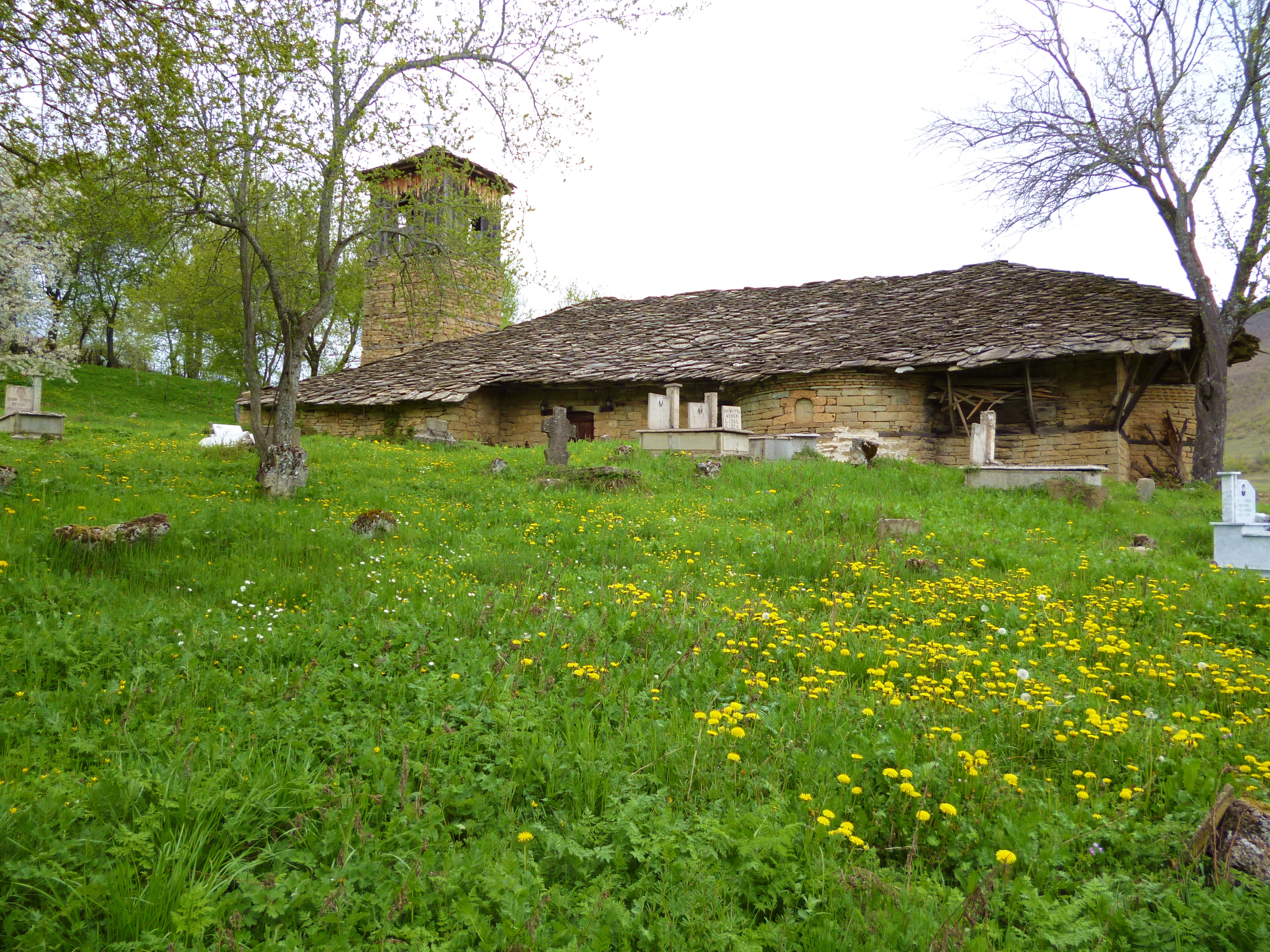 Church of Saint Mary in Niçë, Pogradec area, AlbaniaShqip: Kisha e Shën Mërisë në Niçë, Dardhas, Pogradec